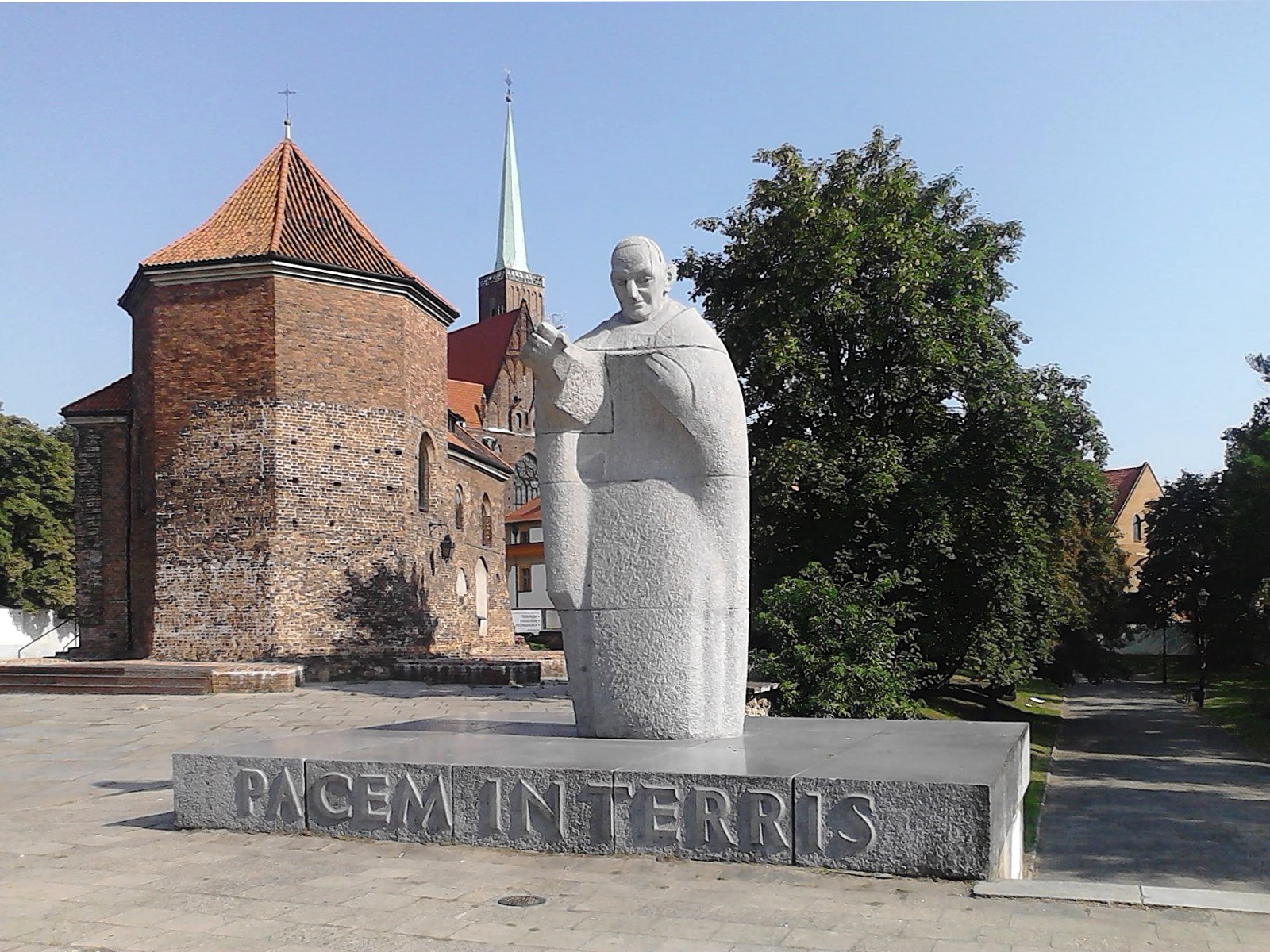 St. Martin's Church and Ioannes XXIII monument in Wrocław